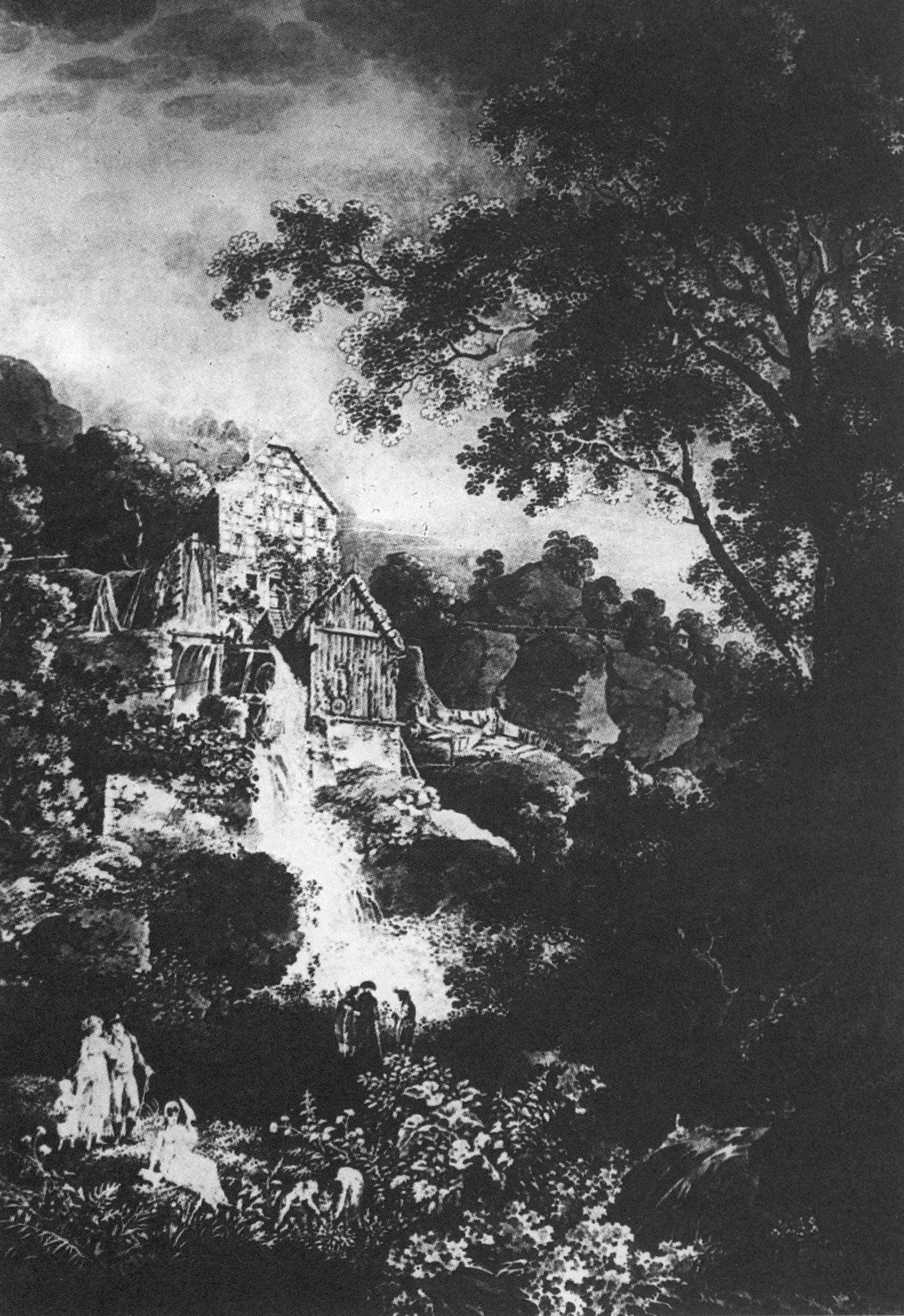 Kepp mill near Hosterwitz (Dresden)